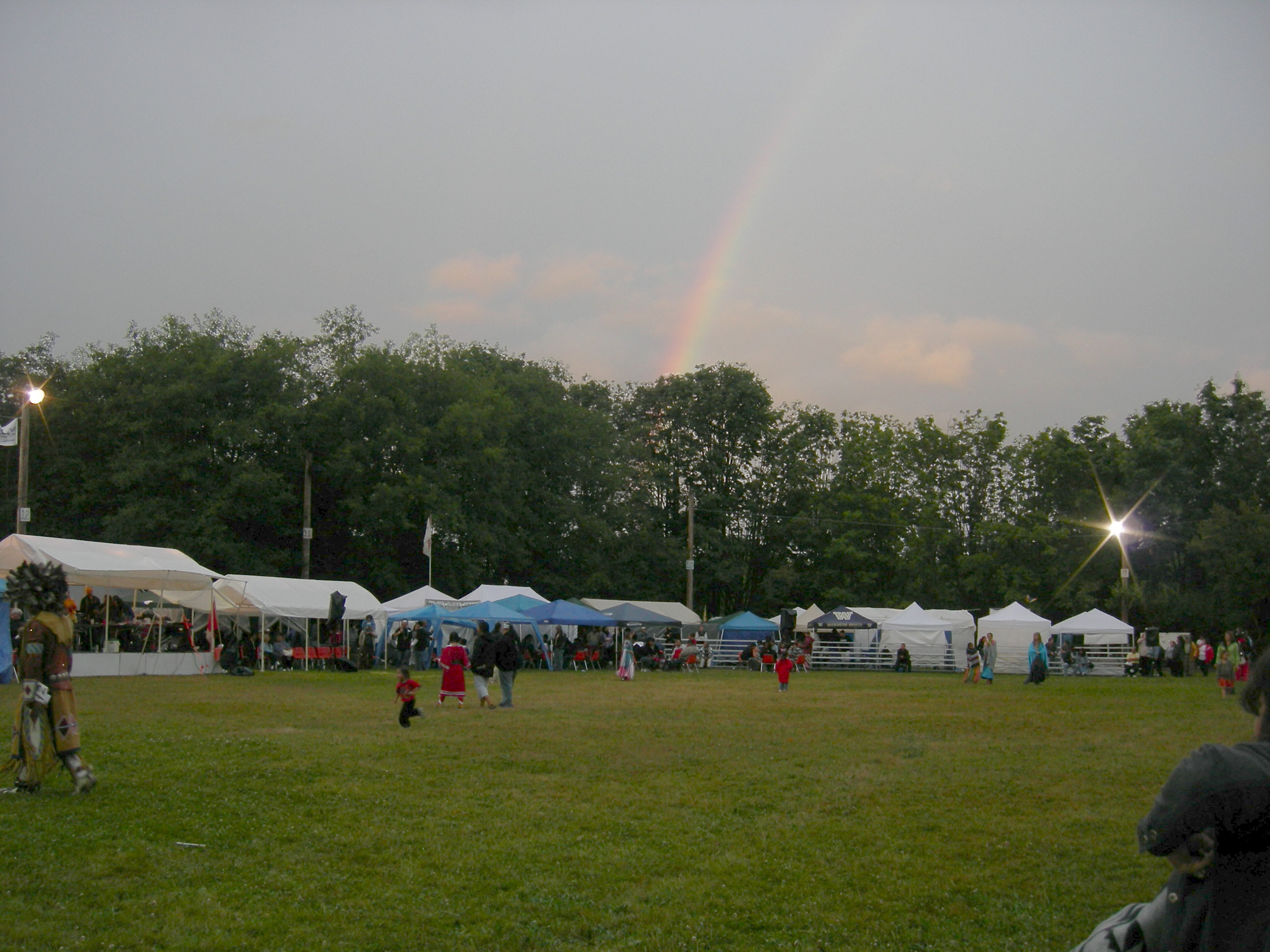 Rainbow over Seafair Indian Days Pow Wow, Daybreak Star Cultural Center, Seattle, Washington. The event is part of Seafair (a series of annual summer events in Seattle) and under the aegis of the United Indians of All Tribes Foundation.